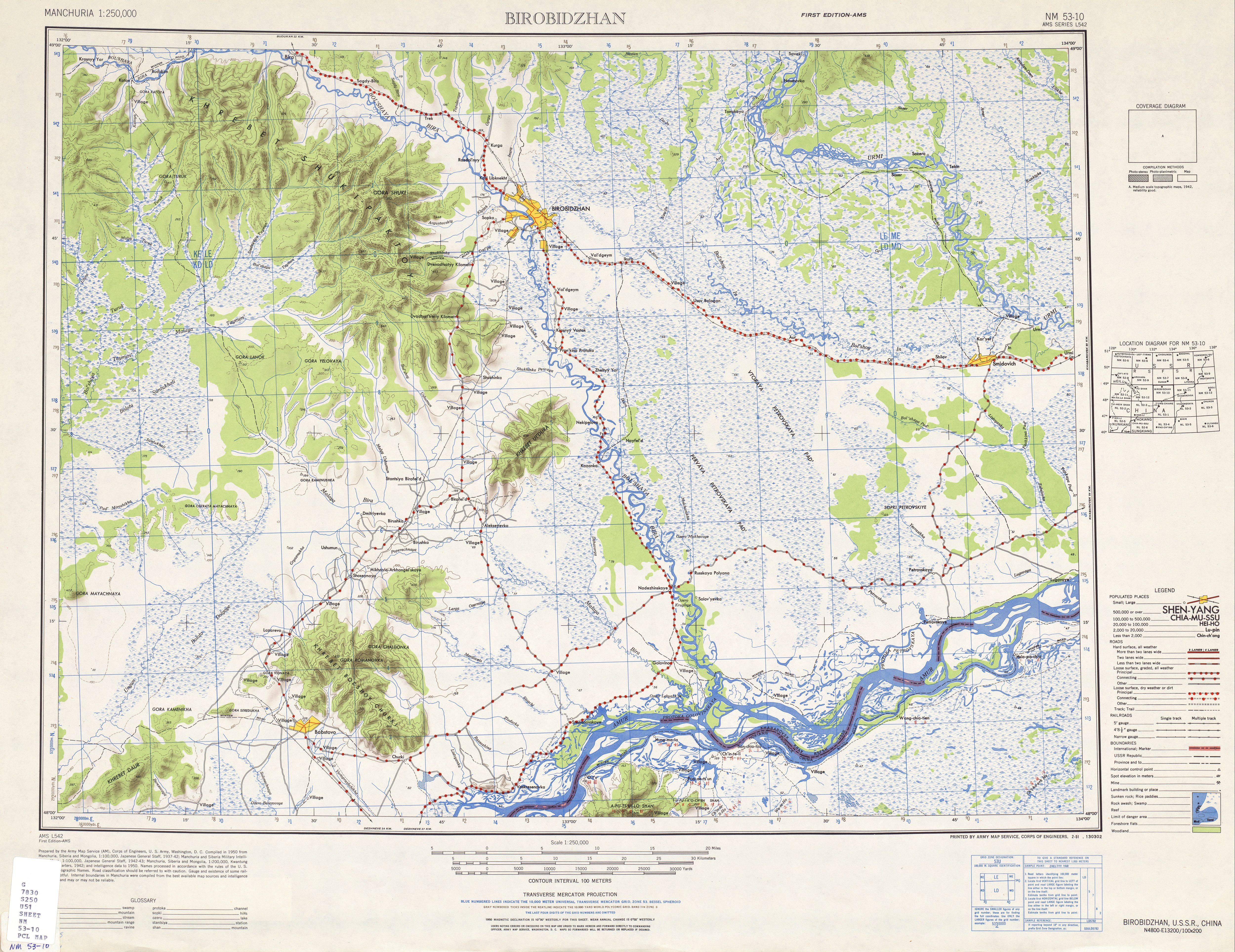 Map of Birobidzhan area, USSR (present-day Russia)